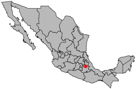 Locator map of Huamantla, Tlaxcala, Mexico